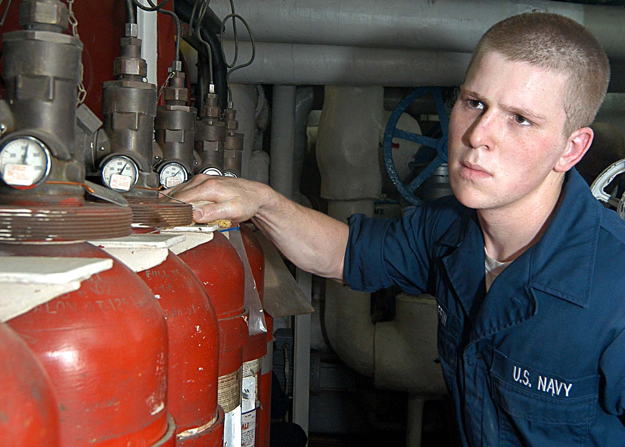 Arabian Gulf (May 15, 2003) - Machinist’s Mate 3rd Class Daniel Griffin wipes down Halon 1301 bottles in the aft main machinery room aboard the amphibious assault ship USS Kearsarge (LHD 3). Kearsarge is deployed to the Arabian Gulf in support of Operation Iraqi Freedom the multi-national coalition effort to liberate the Iraqi people, eliminate Iraq's weapons of mass destruction and end the regime of Saddam Hussein. U.S. Navy photo by Photographer’s Mate Airman Kenny Swartout. (RELEASED)